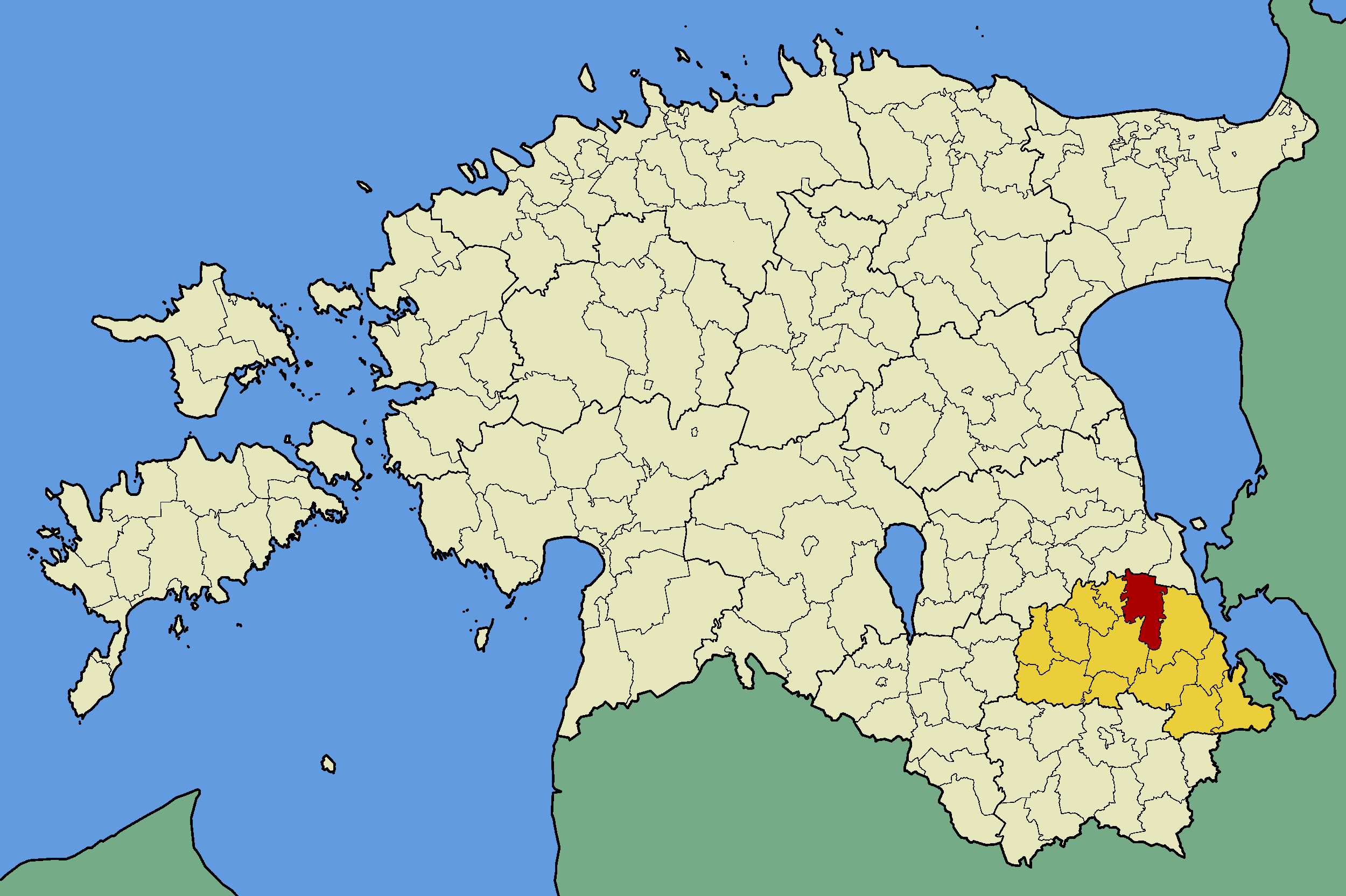 Map of Estonia with borders of municipalities (parishes). Põlva county and Mooste municipality emphasized.